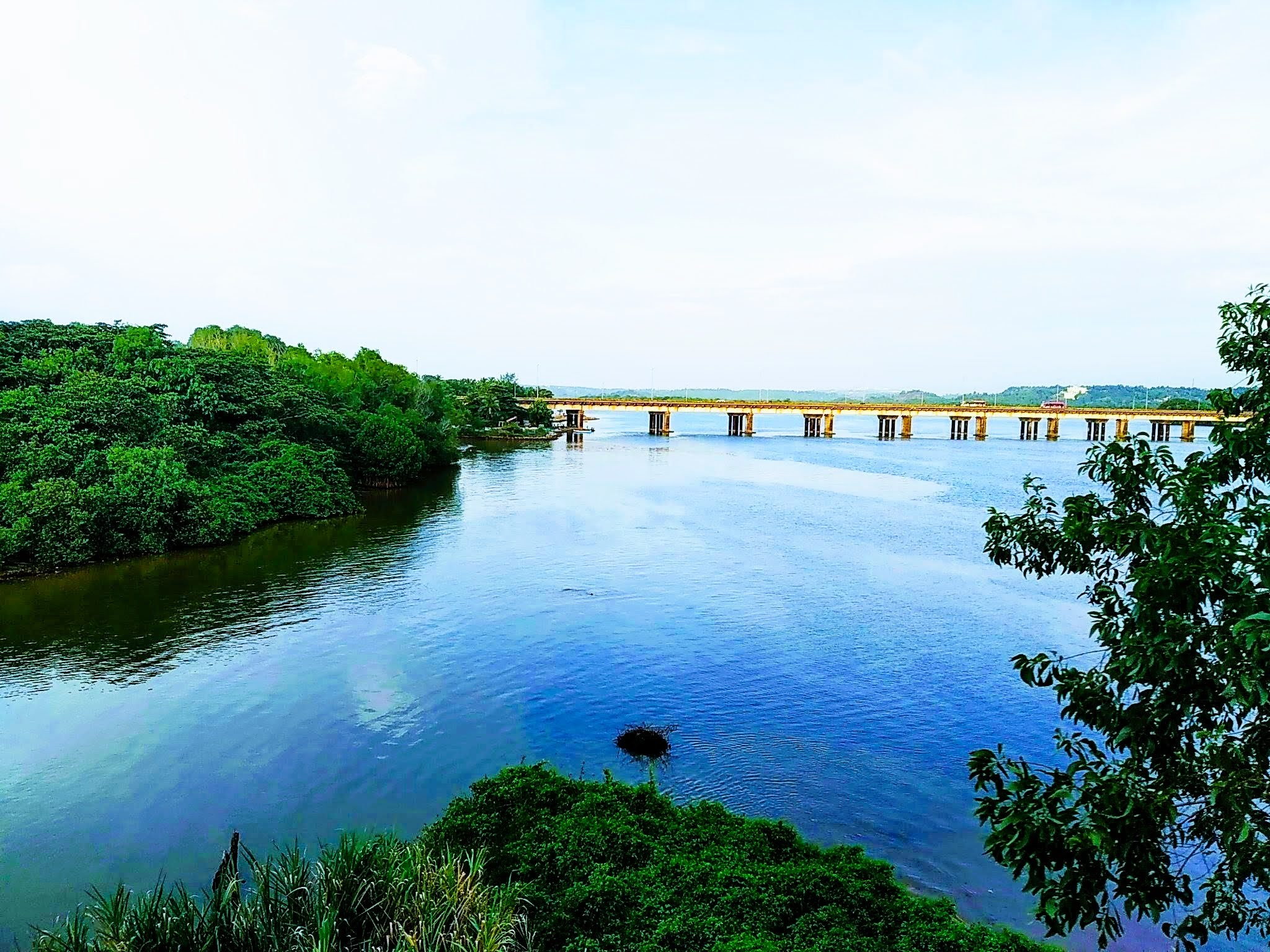 Location: India KarnatakaEvent type: ScenaryDate or year: 2019